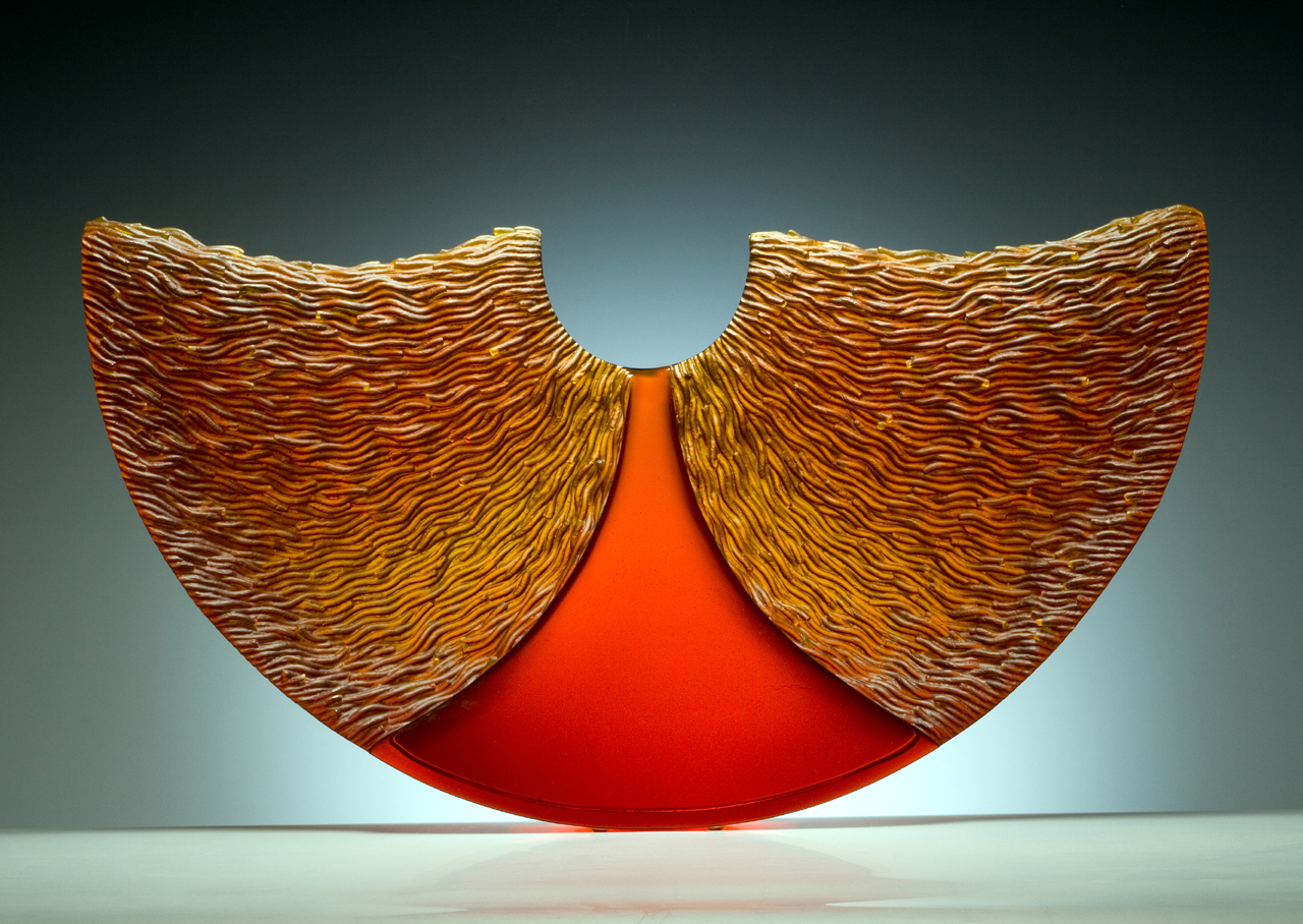 "Angel", glassart by Ivana Houserová, mould-melted, cut and polished glass